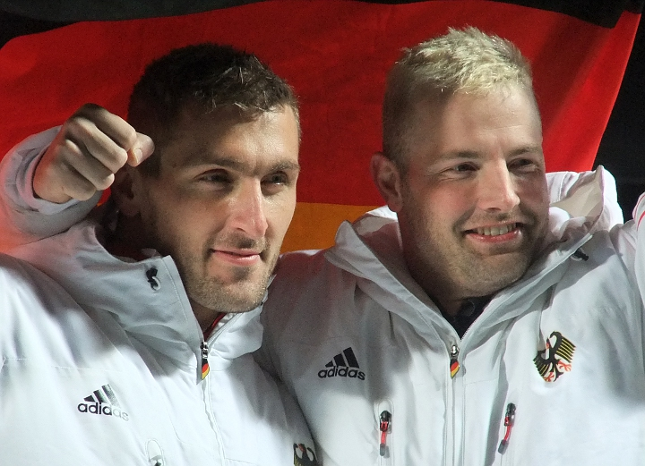 Andre Lange and Kevin Kuske celebrate gold in the two-man bobsled competition at the 2010 Vancouver Winter Olympics